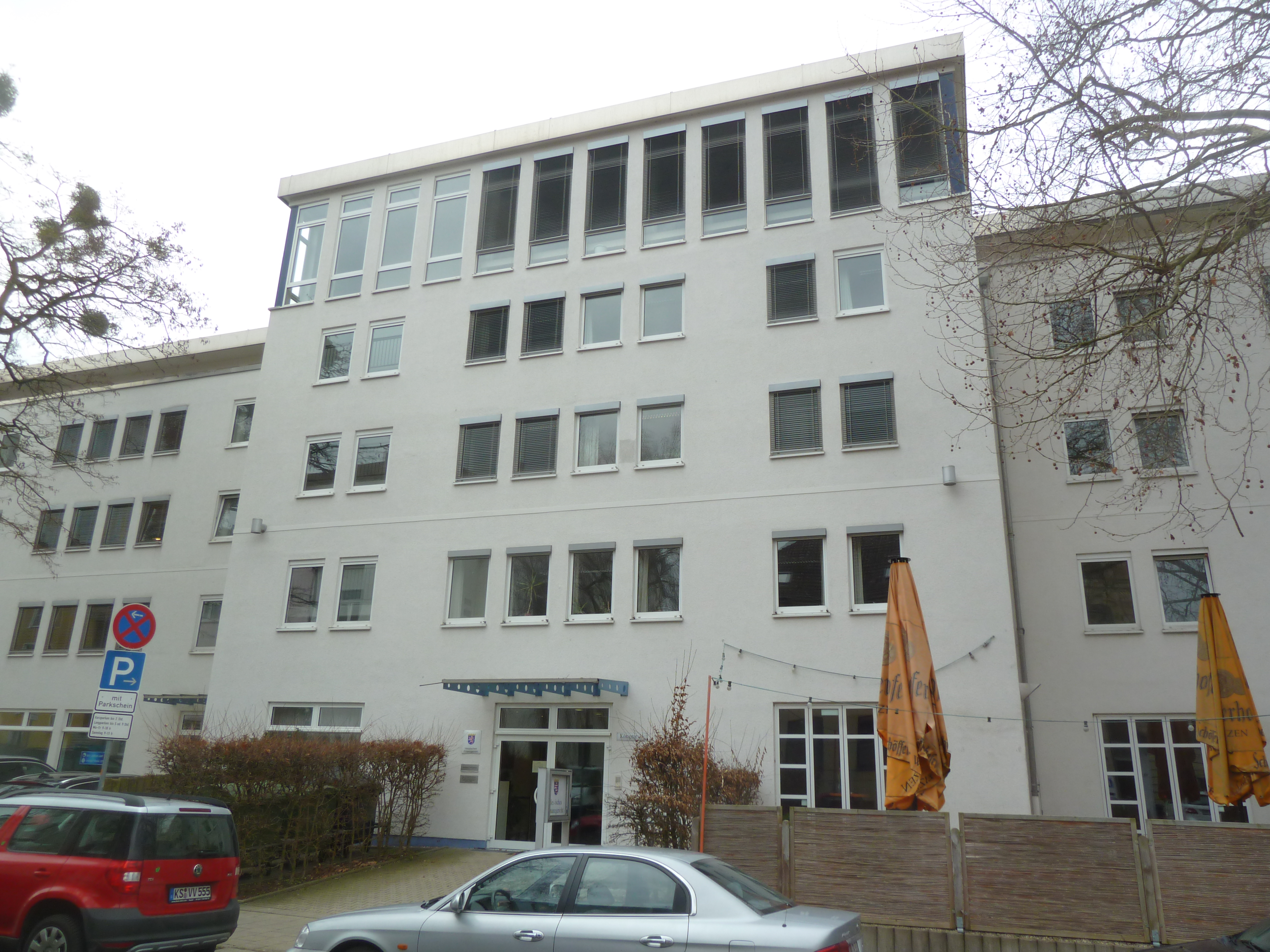 Tax Court of Hessen in Kassel